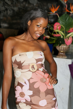 Miss Guadalupe - Nancy Karen Fleurival in Miss World 2007, Sanya, China